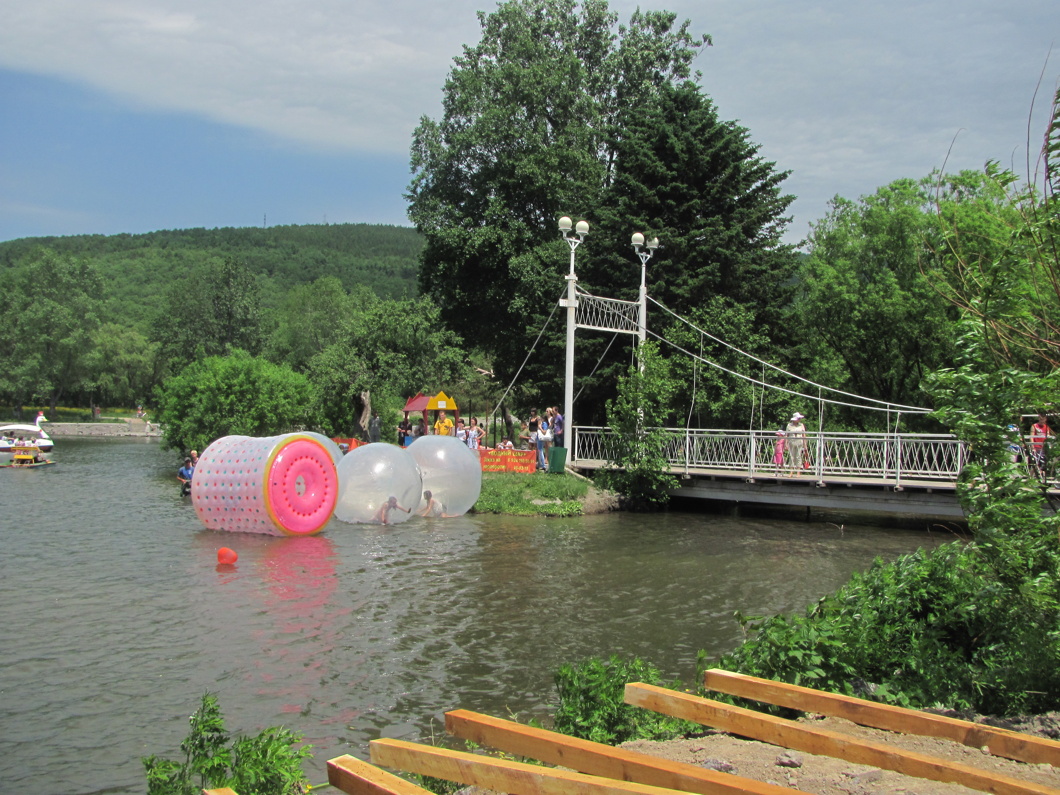 Verhnee Lake in city park, Yuzhno-Sakhalinsk, Sakhalin Island, Russia.